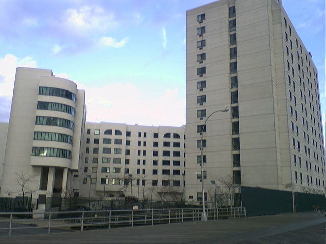 Another view of the senior center on the boardwalk, and West 24th Street, which stands on the grounds of the former Half Moon Hotel.